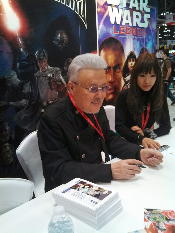 Taken at NY Comic Con 2013